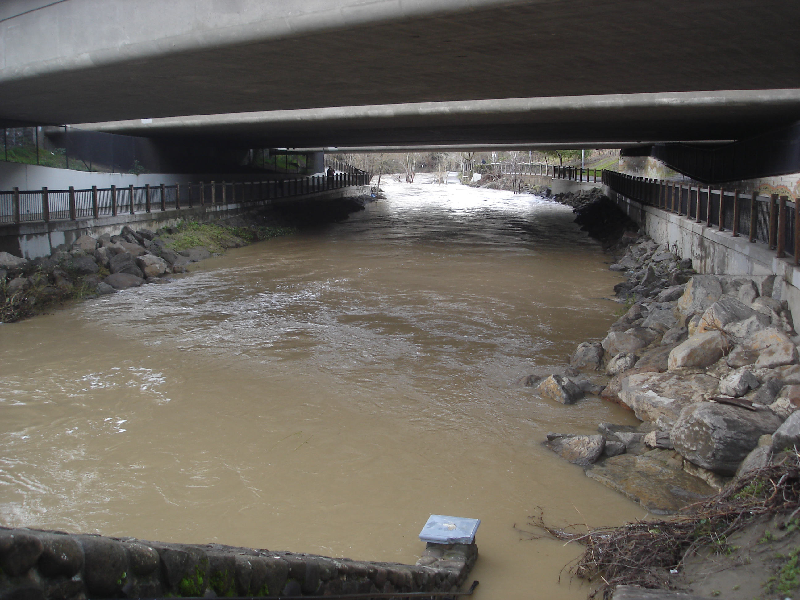 Santa Rosa Creek crossing under U.S. highway 101 during high water in January 2017.